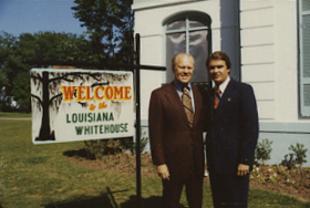 The photo contact sheet, identified as A9450 by the White House Photographic Office (WHPO), is housed at the Gerald R. Ford Presidential Library, a branch of the National Archives and Records Administration (NARA). This file is a 200 dpi photo contact sheet having images from roll of film A9450 of the August 9, 1974 - January 20, 1977 Gerald R. Ford White House Photographic Office Series A0001-A9999 and B0001-B2886 photographs. The date on the photo contact sheet is the date the roll of film was processed, not necessarily the date the photographs were taken. See table below for additional details.